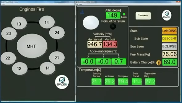 Last telemetry data transmitted from Beresheet lunar lander